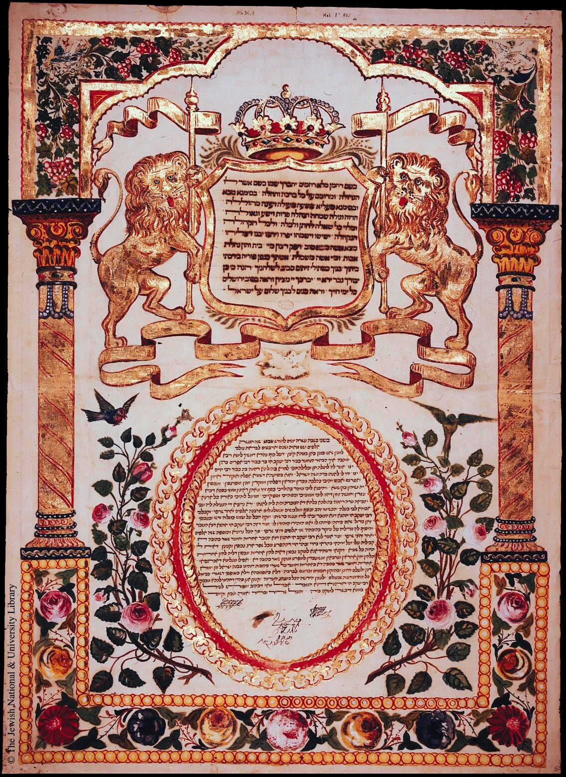 Ketubah from The Ketubot Collection of the National Library of Israel